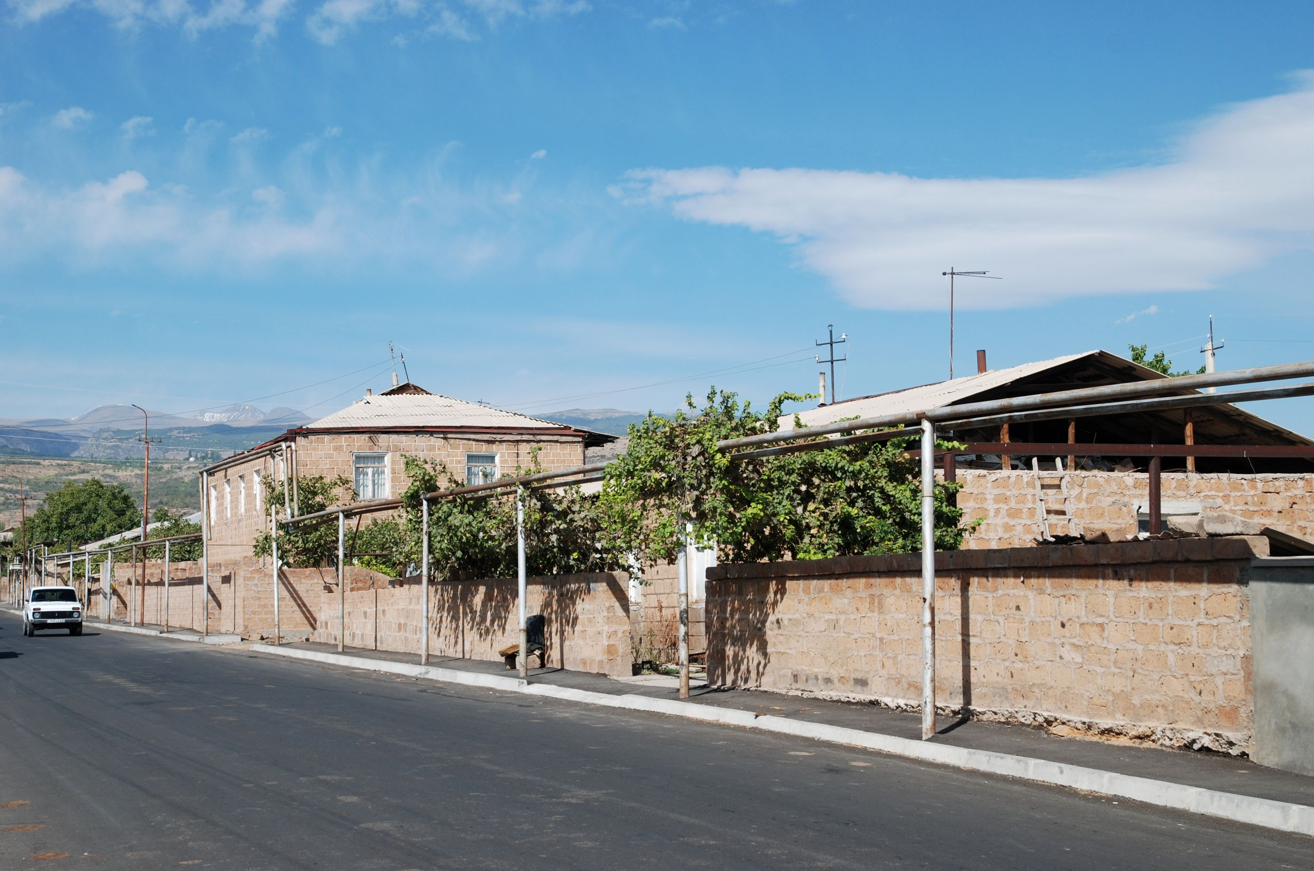 Agarak in Aragatsotn province, main road